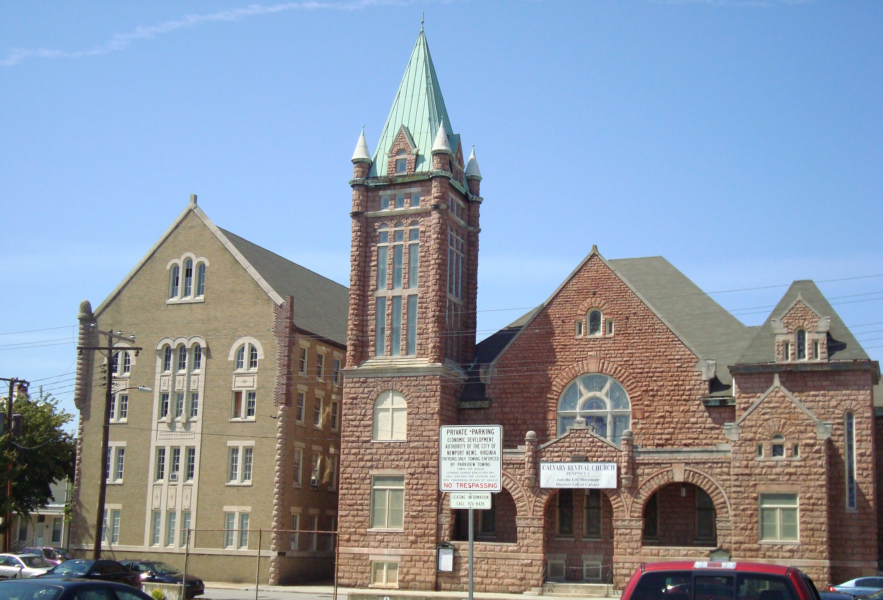 This is the First Baptist Church in Newport News, photographed on August 30, 2013